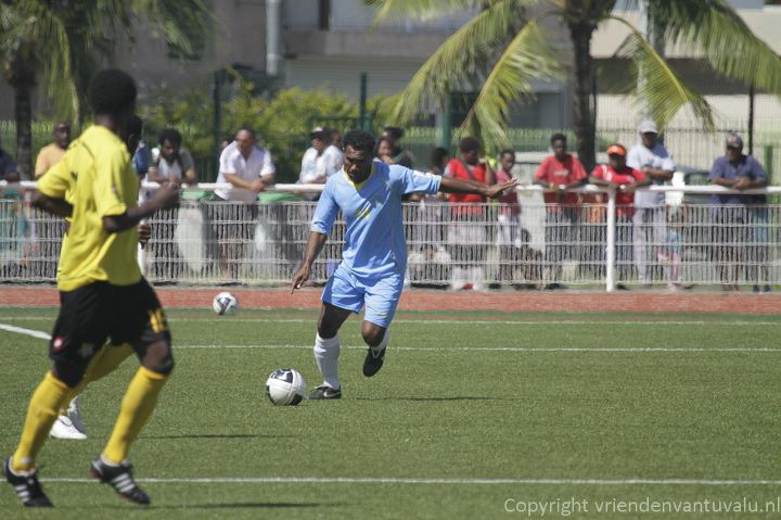 Tapasei